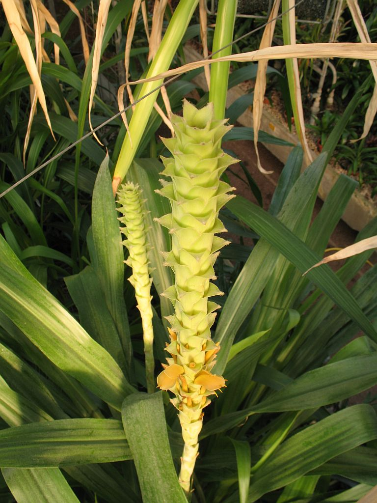 Pitcairnia sceptrigera in cultivation at the Botanical Garden of Heidelberg, Germany.